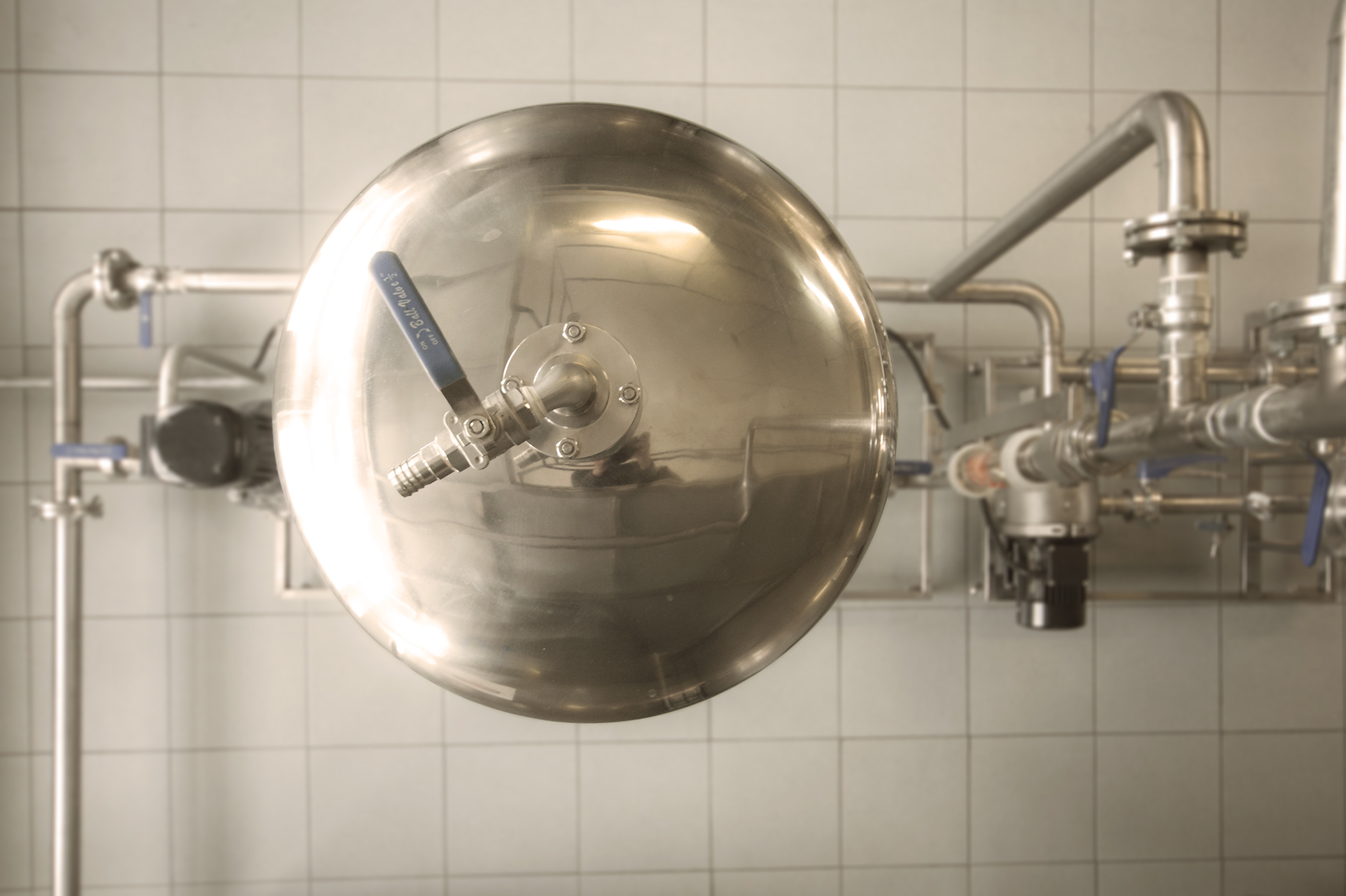 Filtration Stumbras